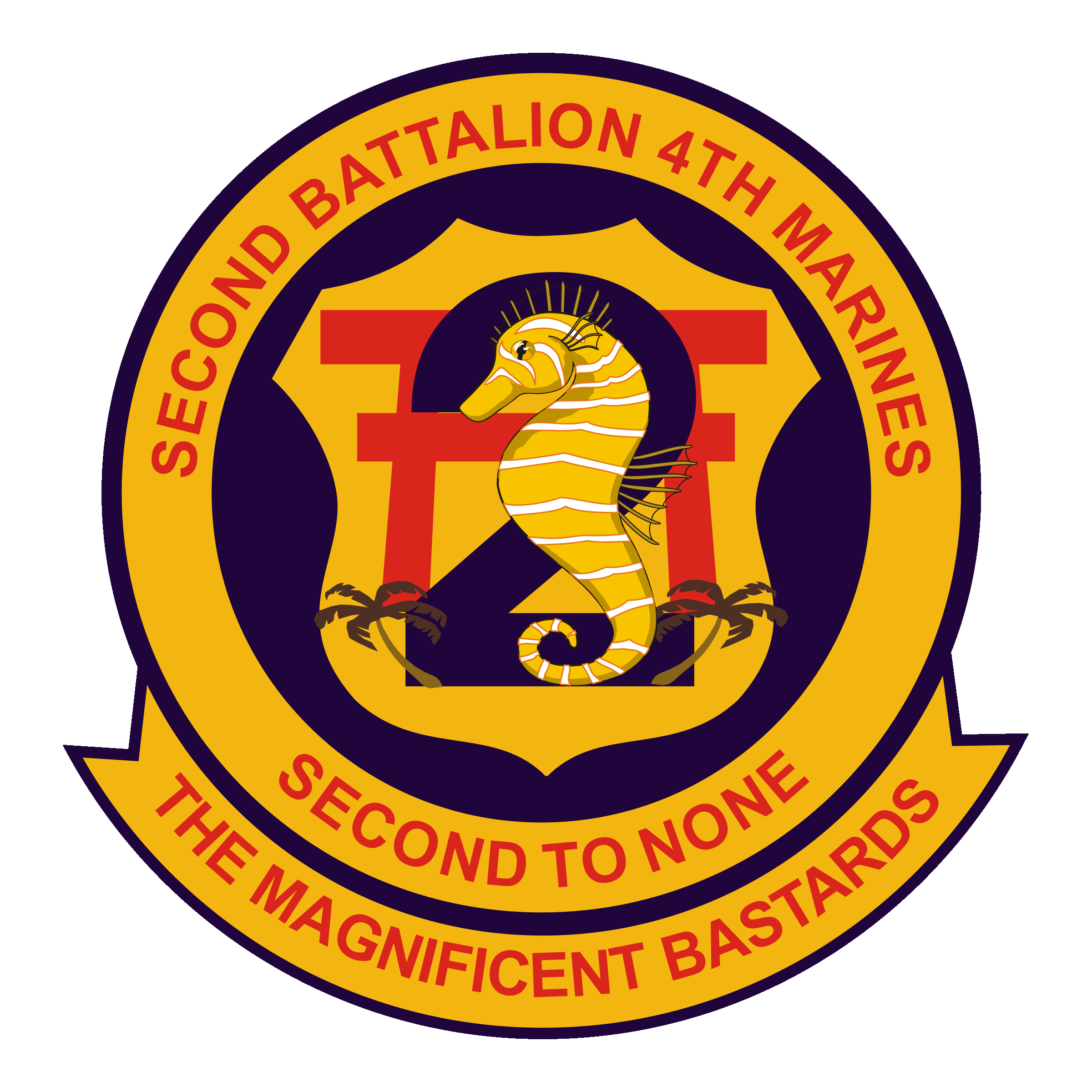 Battalion insignia for 2nd Battalion 4th Marines.